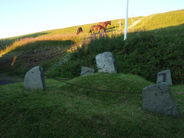 Picture of Carolean grave located at Skalstugan in Sweden